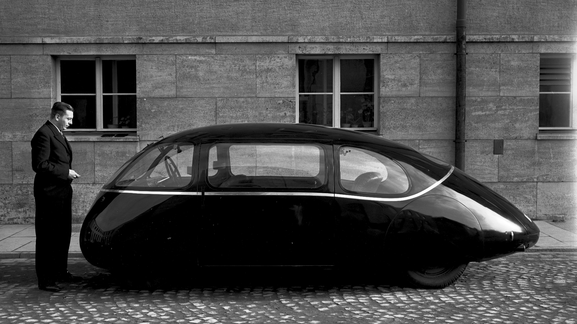 The Schlörwagen Seventy-five years ago, flow researchers at the Aerodynamic Research Institute (Aerodynamischen Versuchsanstalt; AVA) in Göttingen unveiled a car that for many years was considered the quintessential execution of aerodynamic design in vehicle construction; its name was the Schlörwagen.